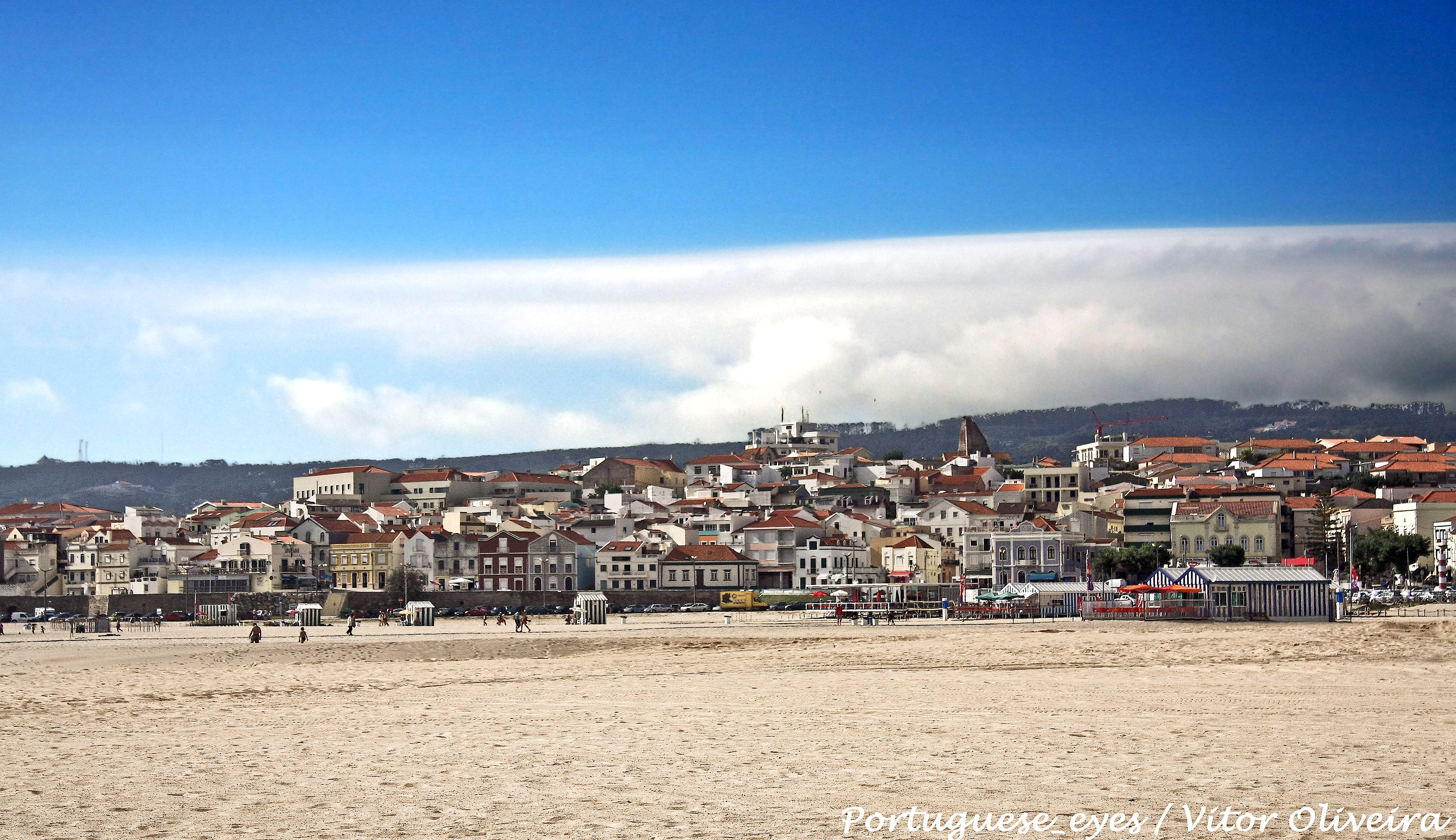 See where this picture was taken. [?]